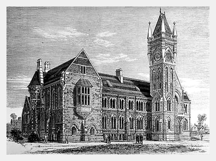 University of Otago, first and main building from 1879, known as Clock Tower Building.